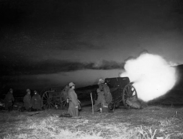 Cadets of the Imperial Japanese Army during shooting training with Type 91 10-cm-howitzer at Fuji training ground. ca. 1935